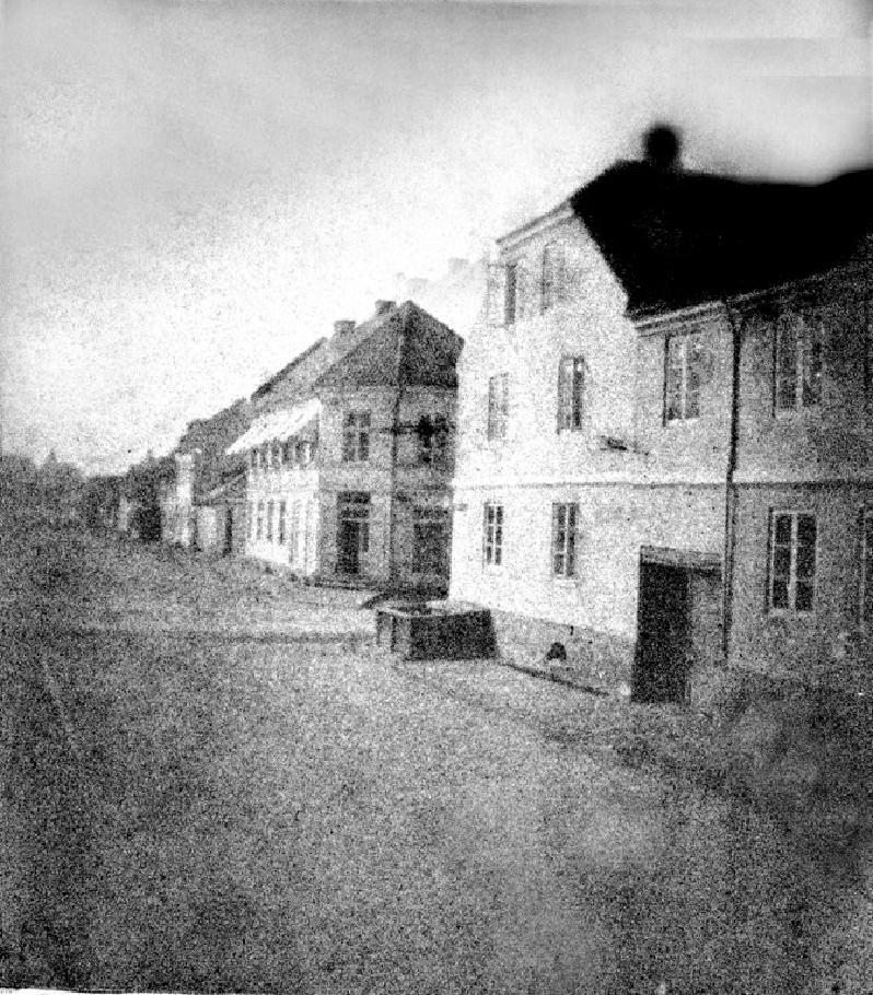 Vil bare legge inn en lenke til et bilde tatt av hva som anerkjennes som den første fotograf her i Norge, den dansk-norske Hans Thøger Winther. Det er et gateparti i Oslo, tatt i 1840-årene